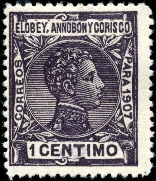 Elobey, Annobon, and Corisco 10-centimo stamp of 1907